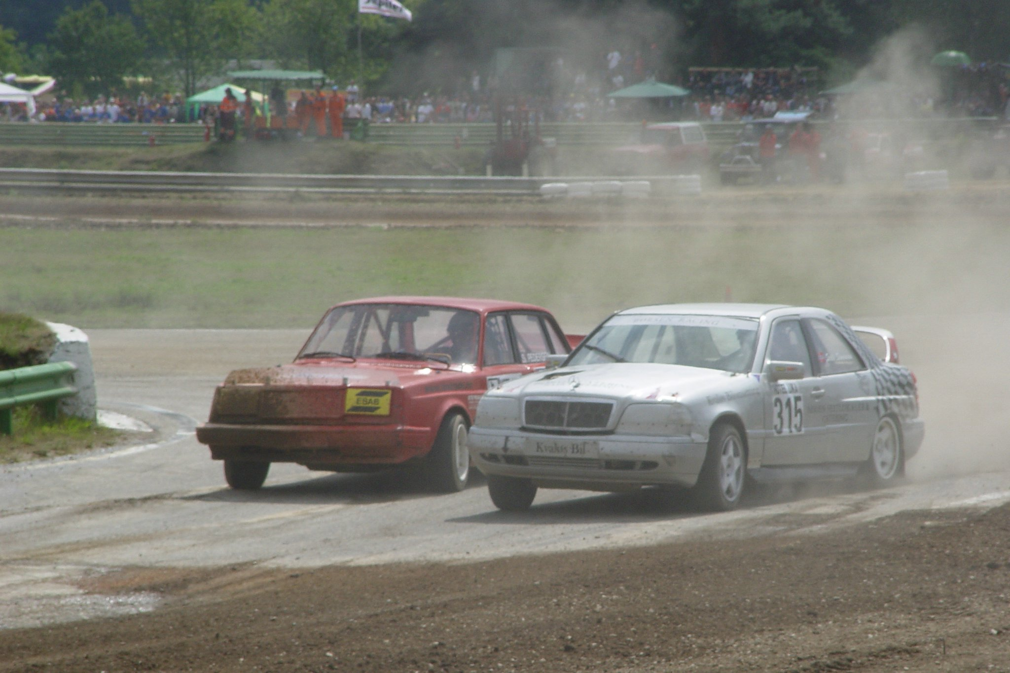 Rally_cross_01b.jpg